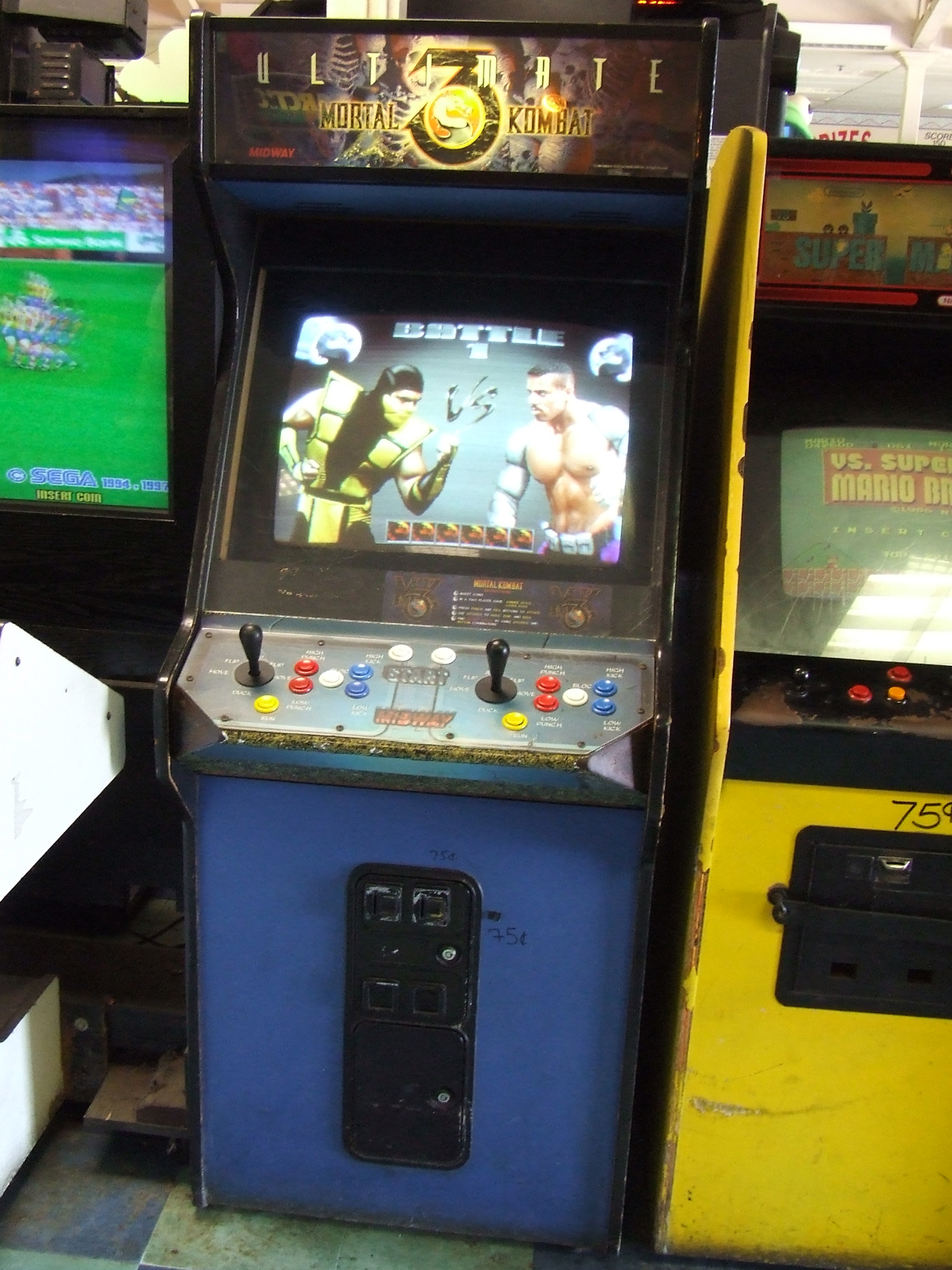 Ulitmate Mortal Kombat 3 arcade, Santa Monica Pier, 2014